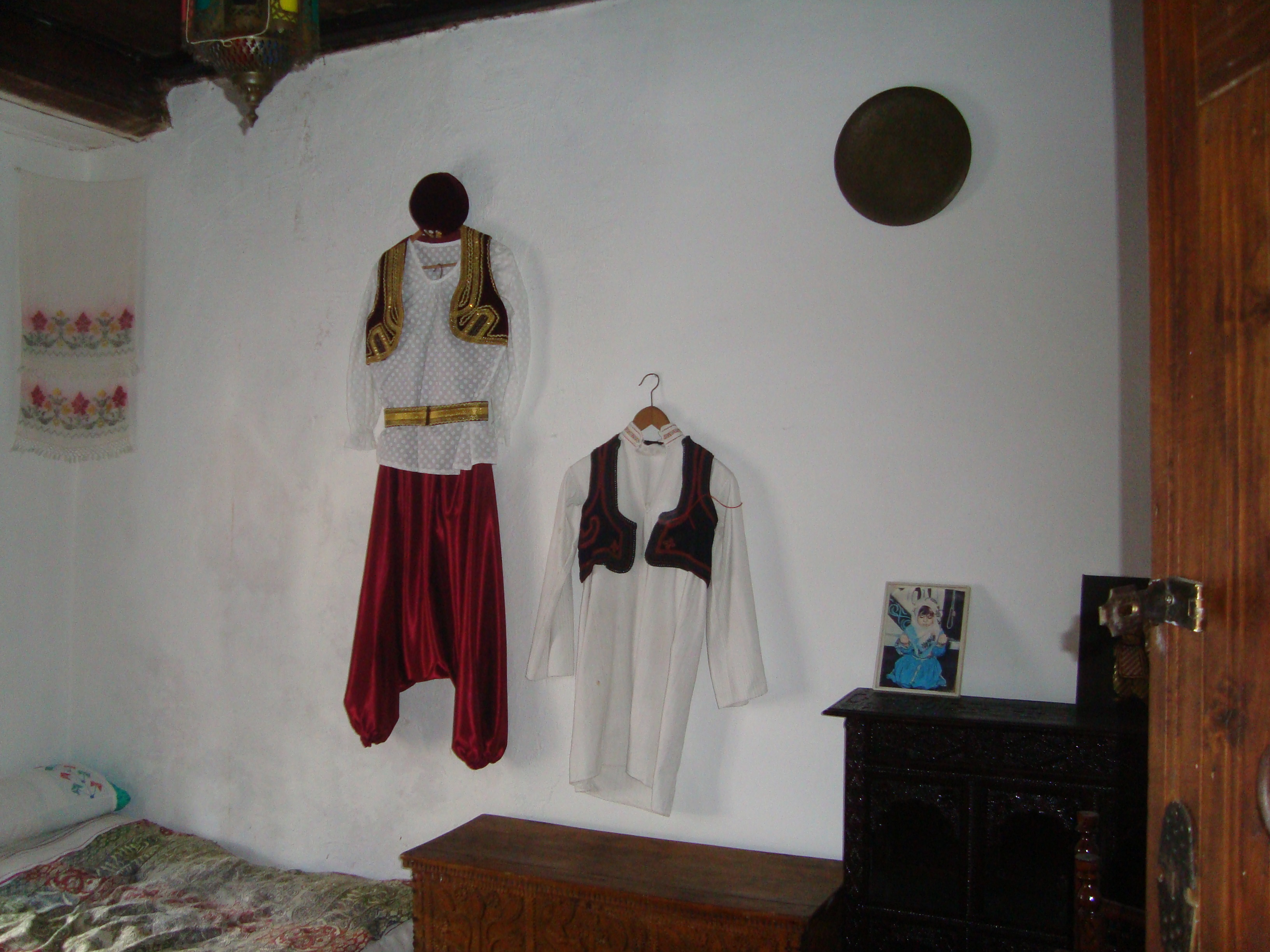 In the Bosniak house